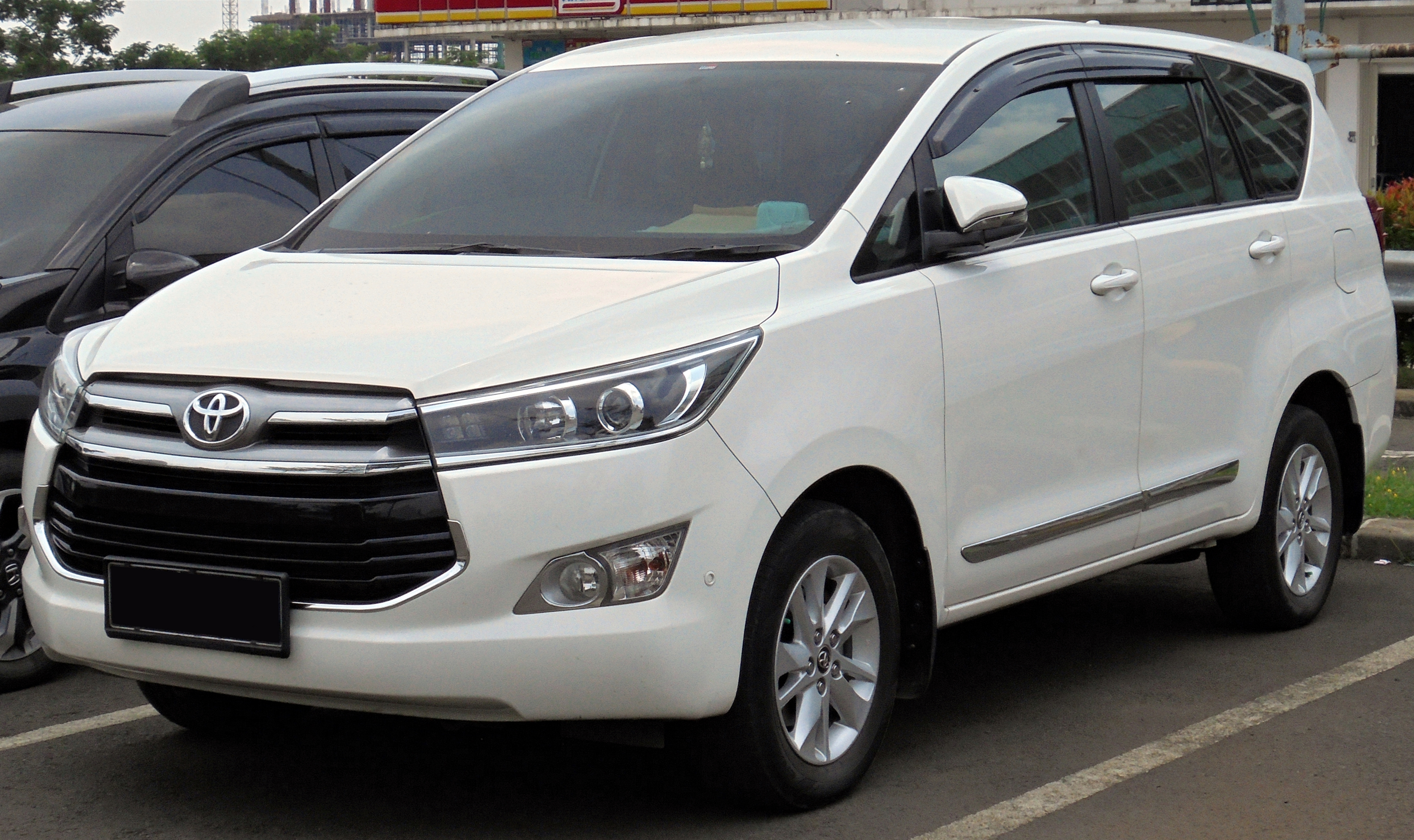 2017 Toyota Kijang Innova 2.4 V wagon (GUN142R) photographed in South Tangerang, Banten, Indonesia.